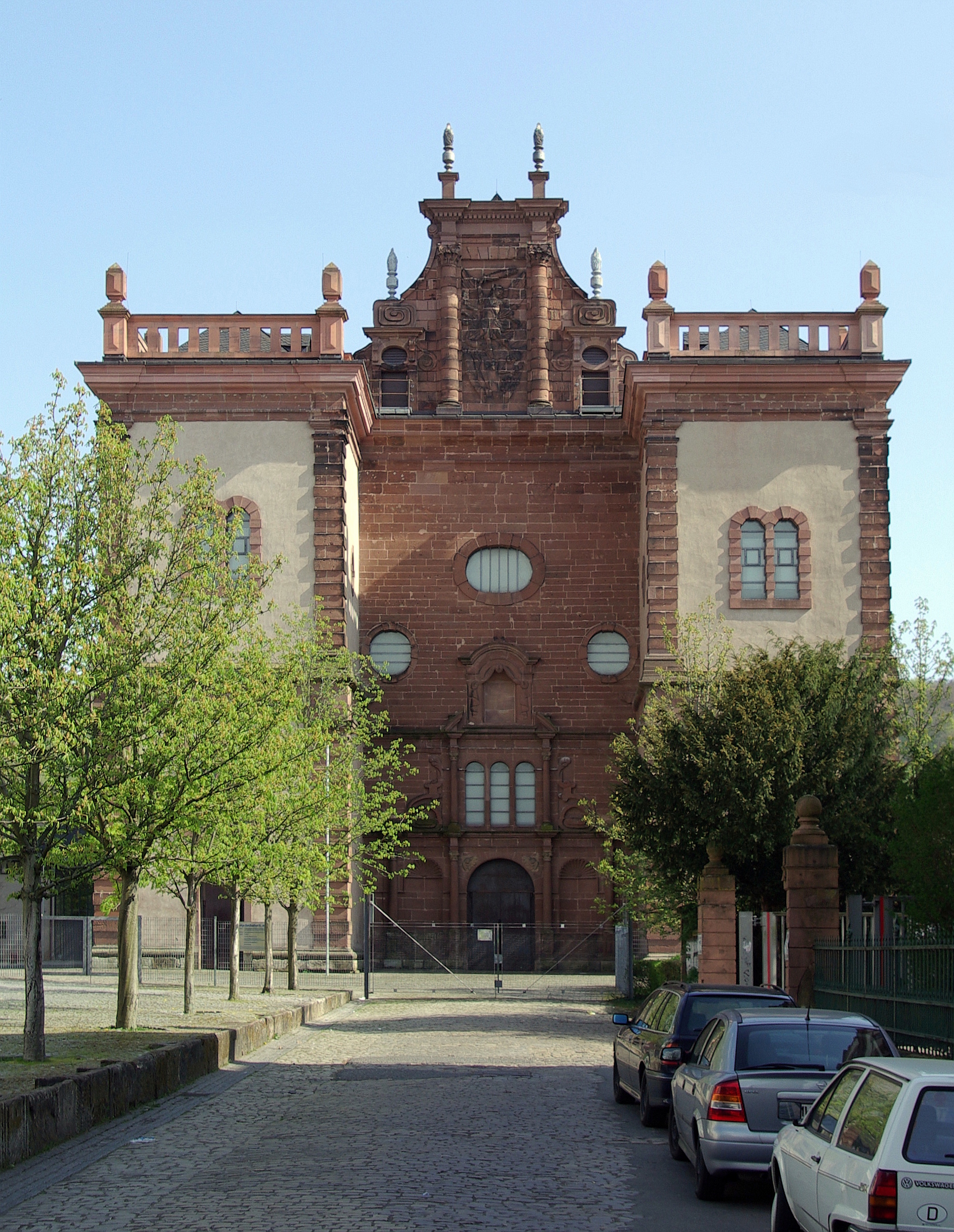 Church of former St. Maximin's Abbey in the German town Trier